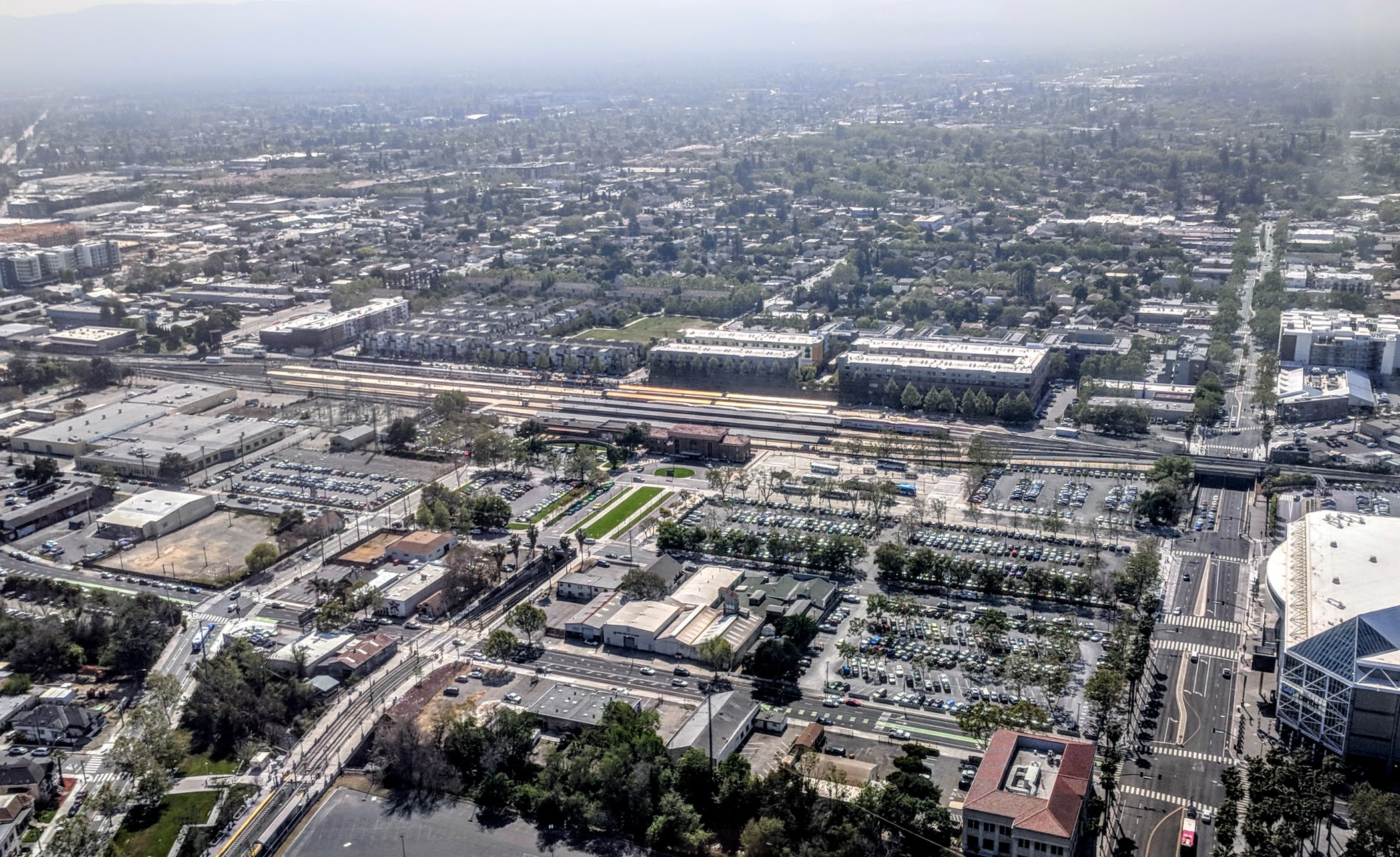 Aerial view of San Jose's Diridon station and vicinity, on approach to SJC